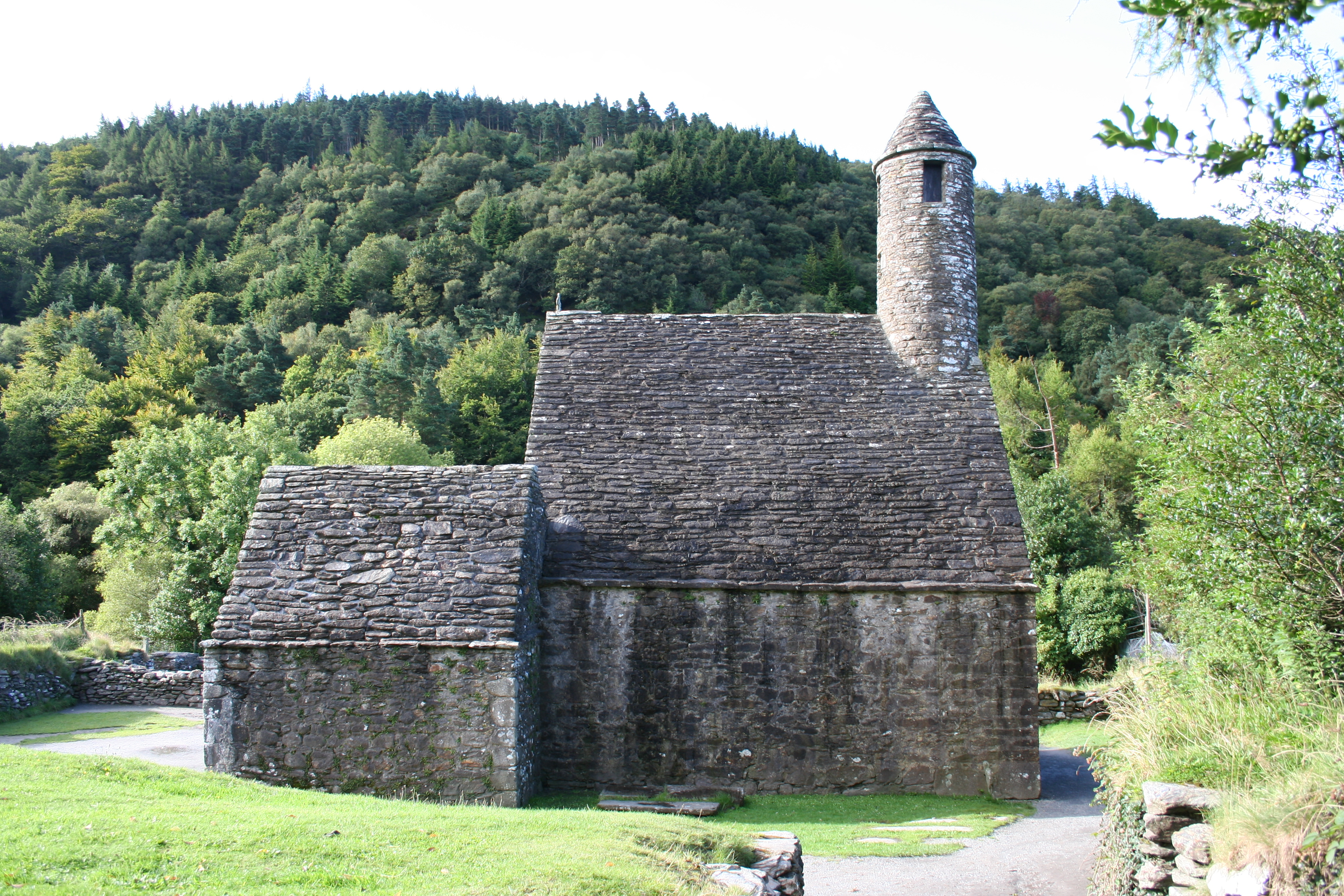 Glendalough St kevin´s Kitchen